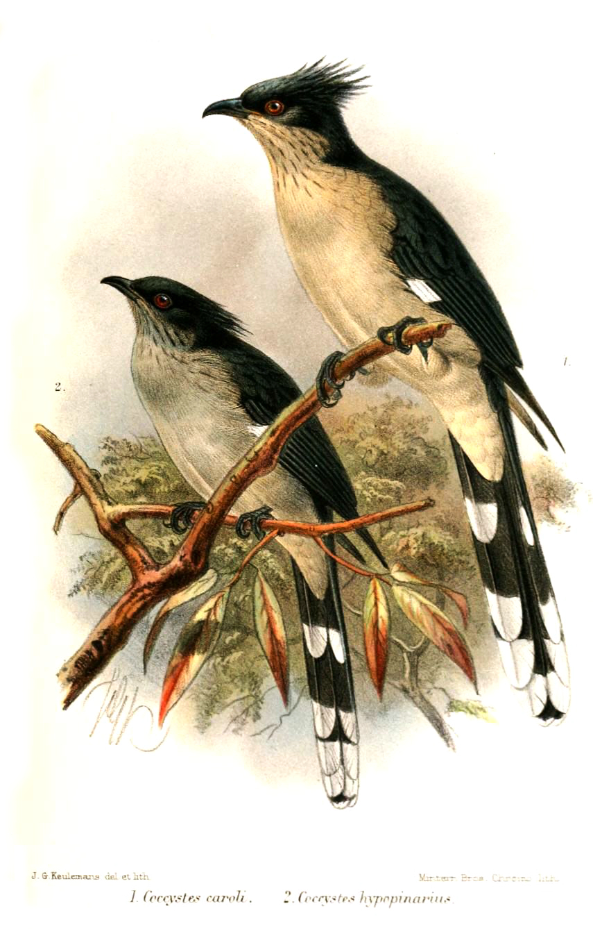 Jacobin Cuckoo